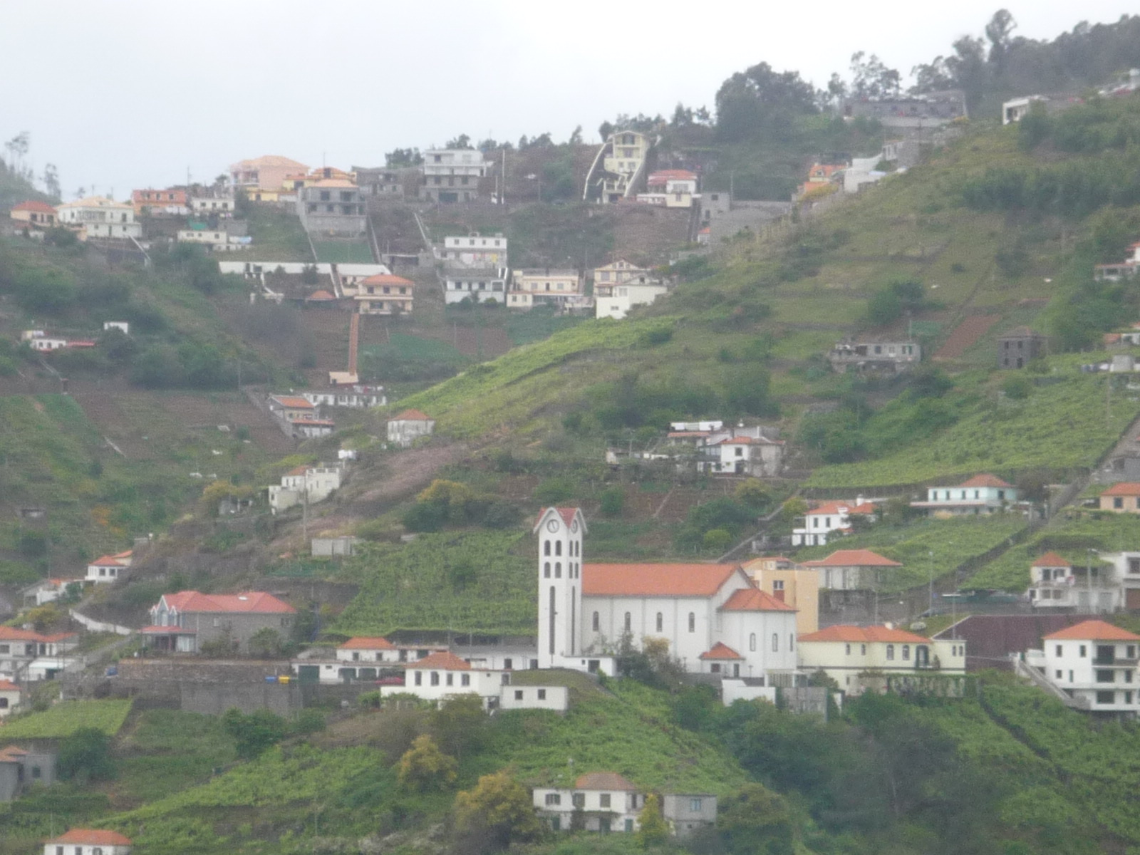 Garachico, part of Estreito de Câmara de Lobos, Madeira viewed from Estreito proper looking across the valley of Ribeira da Caixa. The church is at 32°40′05″N 16°59′18″W / 32.668186°N 16.988323°W and is dedicated to Nossa Senhora do Bom Sucesso (Our Lady of Good Success -entry on diocesan website).